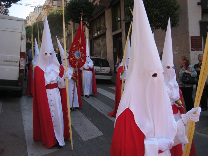 nazarenos borrica